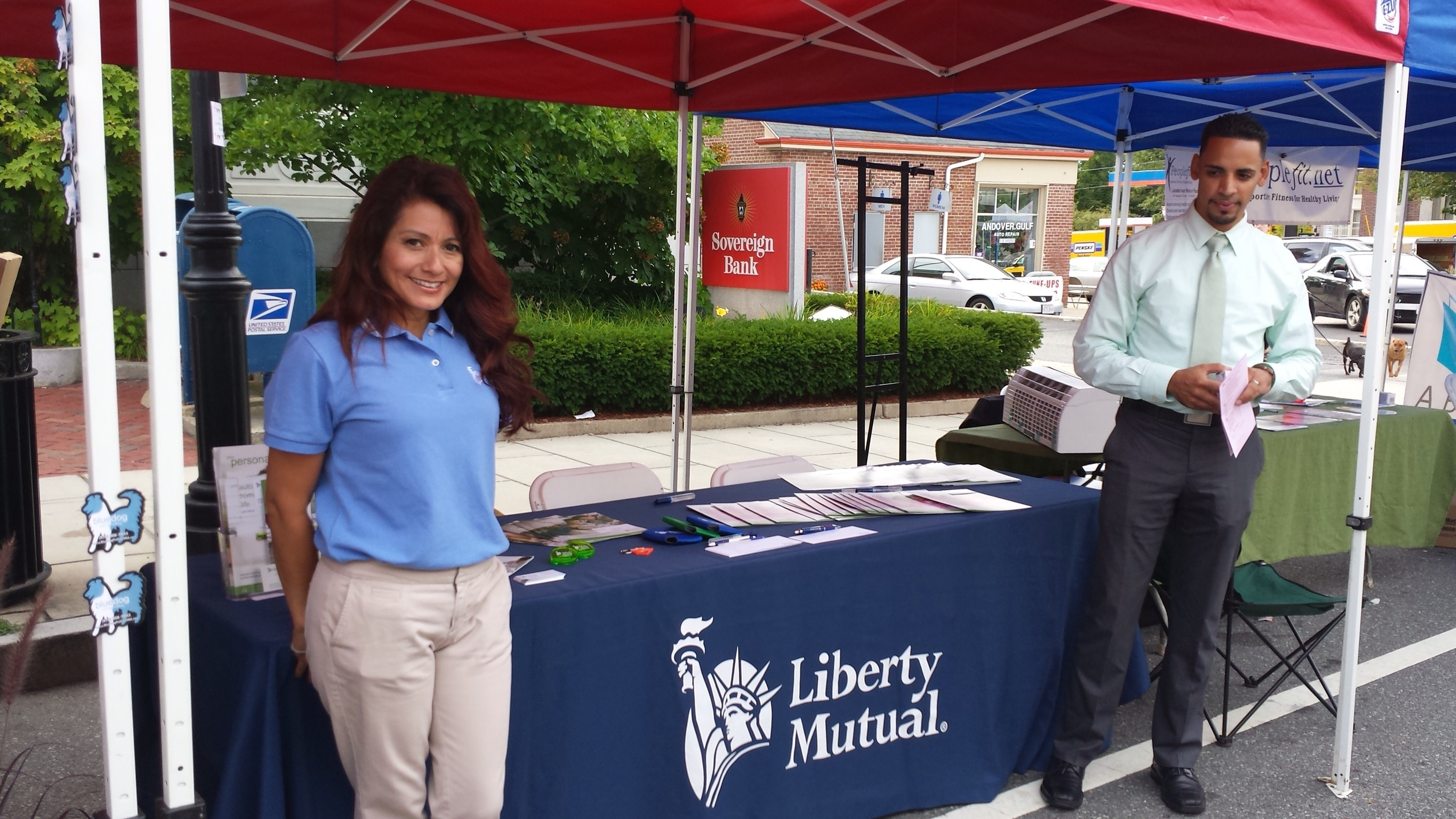 A liberty mutual booth at a street fair in Andover Massachusetts Other information Photo has been cropped in editing